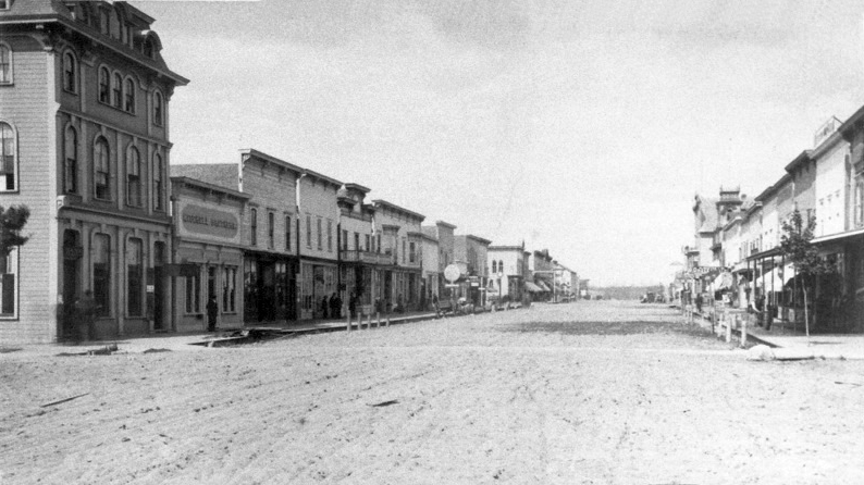 Northerly view of Mitchell Street in Cadillac, Michigan.